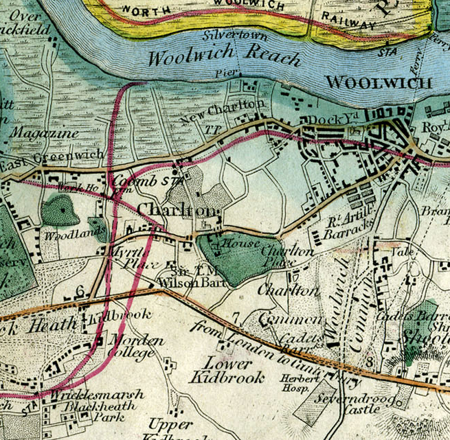 The area of Charlton from James Wyld's A New Topographical Map Of The Country In The Vicinity Of London, Describing All The New Improvements, Metropolitan Boroughs And Parish Boundaries of 1872